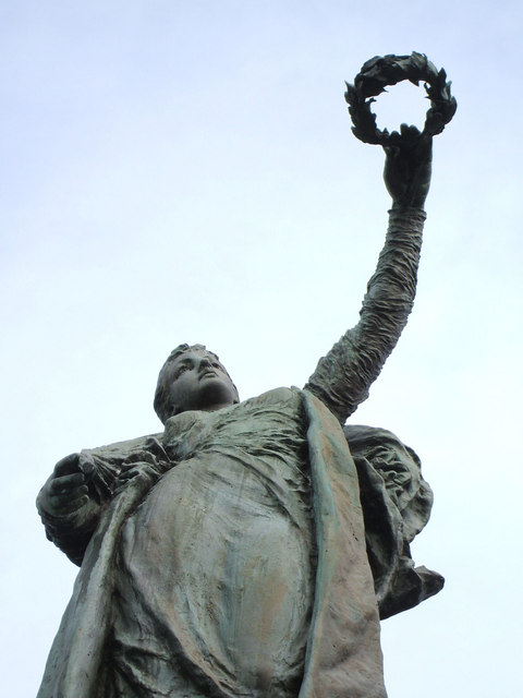 Boer War monument, Drumragh Avenue, Omagh. The daddy of all Omagh's public sculpture is the Boer War monument, formally called the Royal Inniskilling Fusiliers South African War Memorial, more at It is located here 1593462.